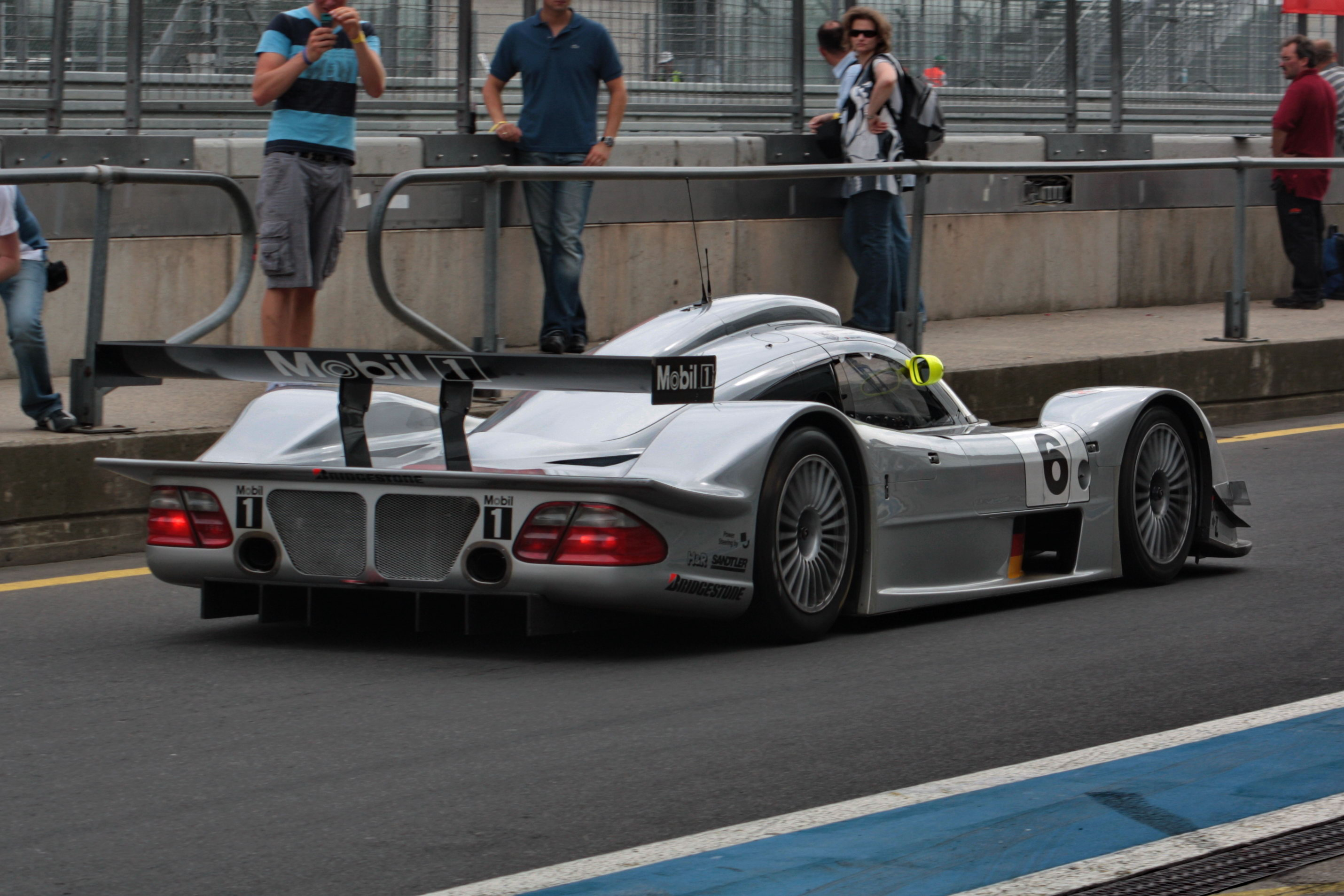 Mercedes-Benz CLR